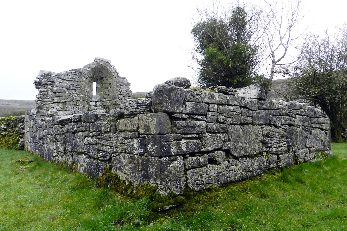 Oughtmama Three Churches